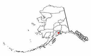 Adapted from Wikipedia's AK borough maps by Seth Ilys.